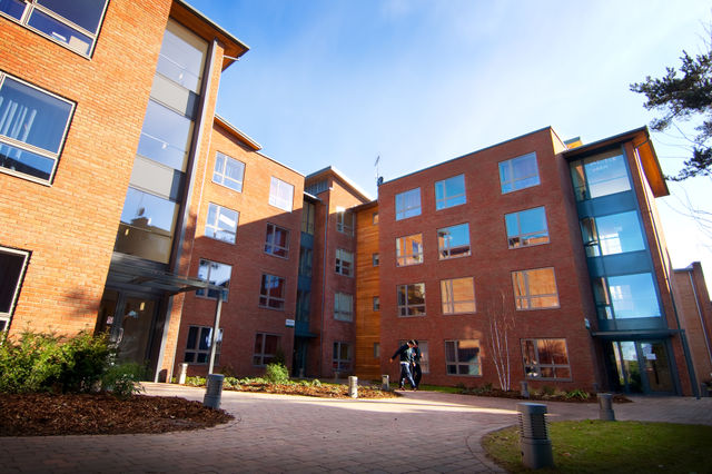 The University’s newest on campus accommodation provides self-contained self-catering flats with en-suite bathrooms, a shared kitchen and living area and plasma screen TVs.